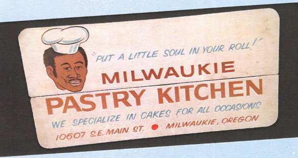 Put A Little Soul In Your Roll, Milwaukie Pastry Kitchen slogan vehicle signs.